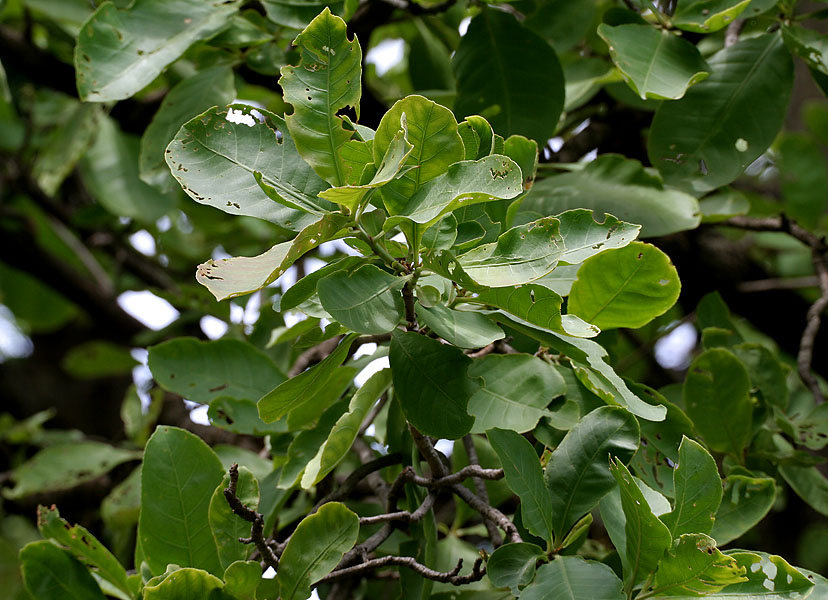 Diospyros chloroxylon - Slow Match Tree, Wild Guava, Ceylon Oak, Patana Oak • Hindi: कुम्भी Kumbhi • Marathi: कुम्भा Kumbha • Tamil: Aima, Karekku, Puta-tanni-maram • Malayalam: Alam, Paer, Peelam, Pela • Telugu: araya, budatadadimma, budatanevadi, buddaburija • Kannada: alagavvele, daddal • Bengali: Vakamba, Kumhi, Kumbhi • Oriya: Kumbh • Khasi: Ka Mahir, Soh Kundur • Assamese: Godhajam, কুম Kum, kumari, কুম্ভী kumbhi • Sanskrit: Bhadrendrani, गिरिकर्णिका Girikarnika, Kaidarya, कालिंदी Kalindi - in Narsapur, Medak district, Andhra Pradesh, India.